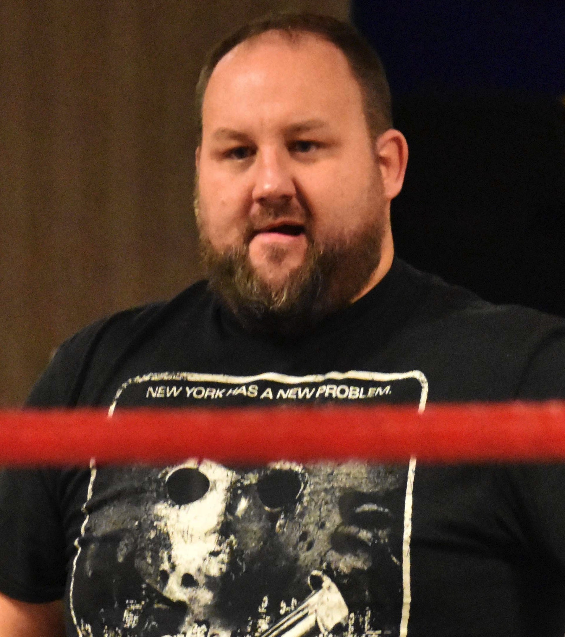 Beer City Bruiser appearing at MKE Wrestling's “The Last Knight” pro-wrestling event in West Allis, Wisconsin on April 19, 2019.